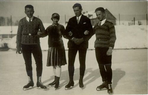 Stanko Bloudek, Kadrnka Gizela, Viktor Vodišek and France Avčin